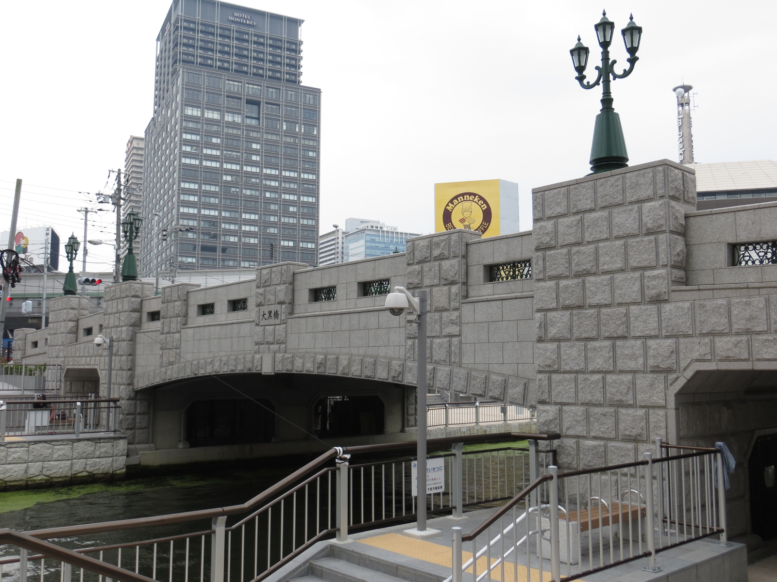 Daikokubashi, Bridge. Chūō-ku, Osaka.